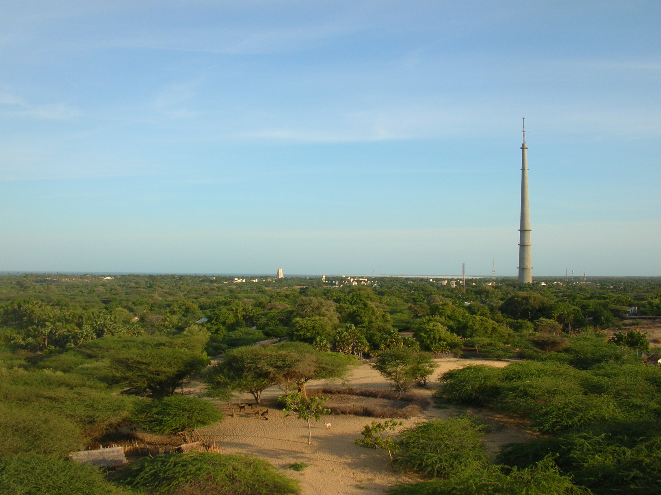 A panoramic view of the western part of Pamban island from the summit of Mt. Gandhamadana which is located almost at the centre of the island. The television tower, the tallest in India and the entire Rameswaram temple are visible in the picture